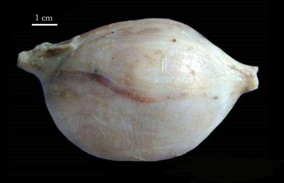 Neural tumour with cut end of nerve affected by it on both ends.